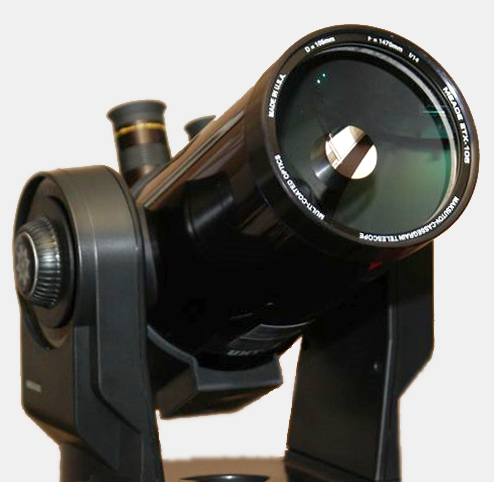 Example of a commercially manufactured "spot" Maksutov cassegrain.